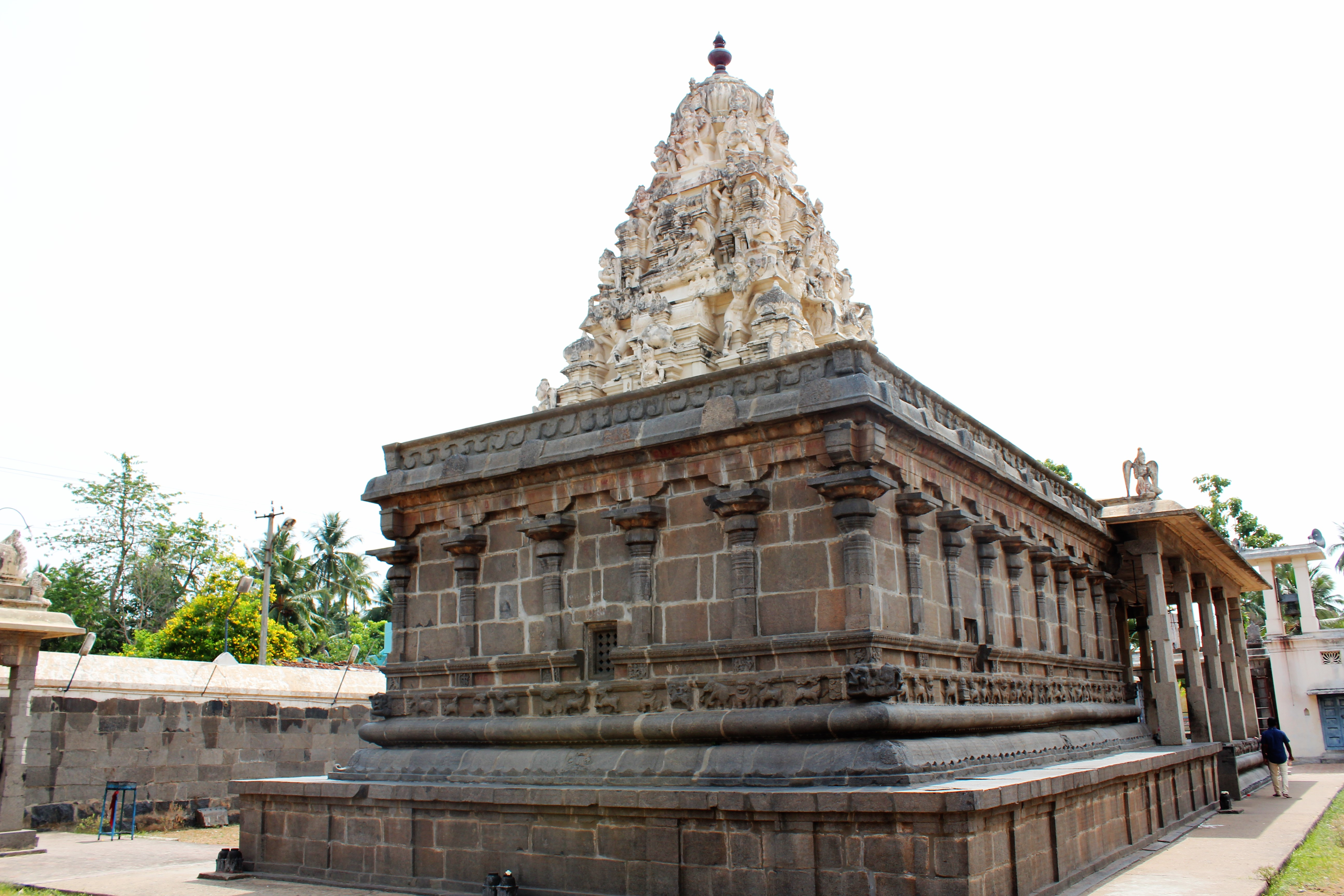 Varadharajaperumal temple, Thirubuvanai. Also called Thothathri temple in Villupuram district, Tamil Nadu, India